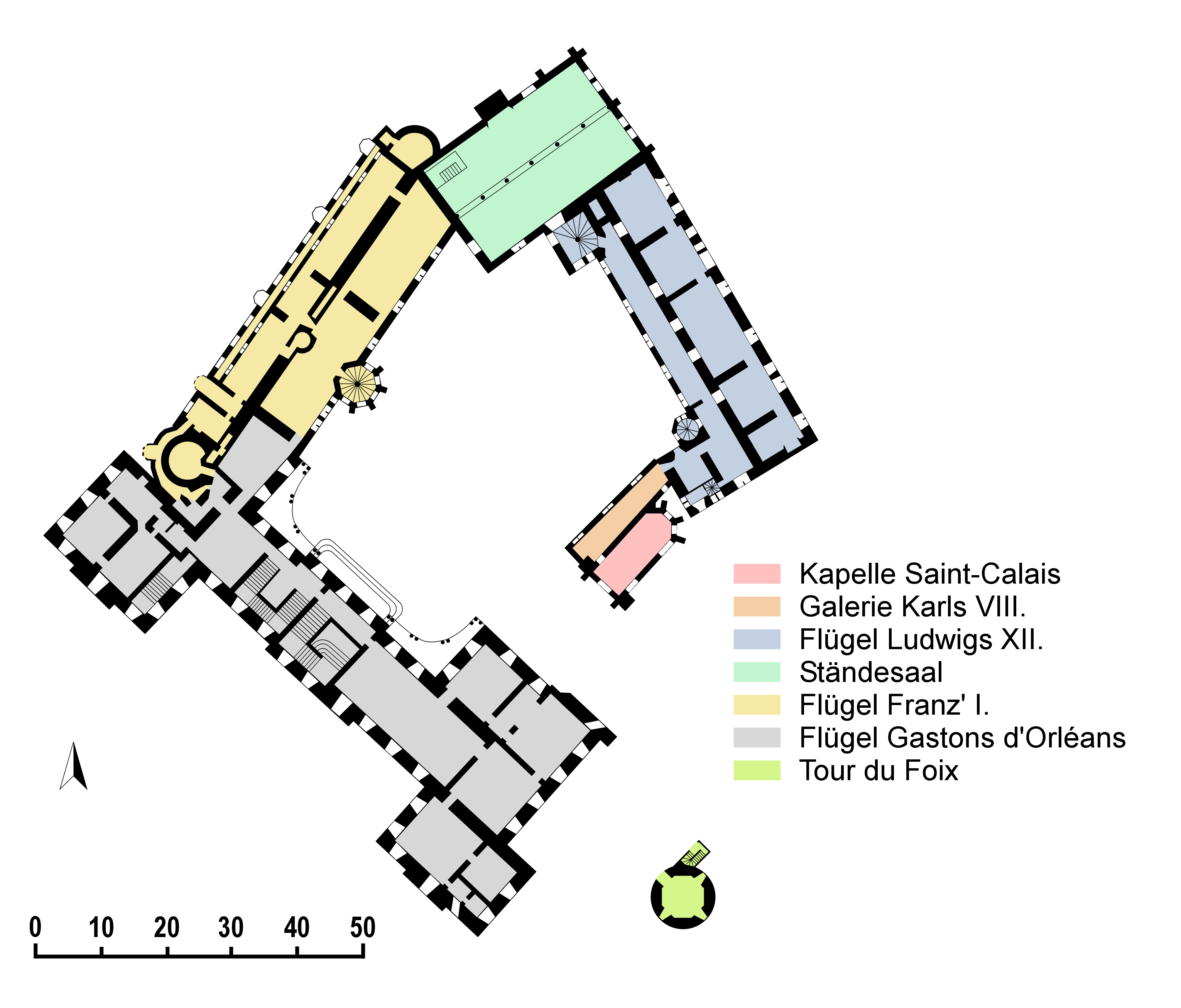 Floor plan of the château de Blois